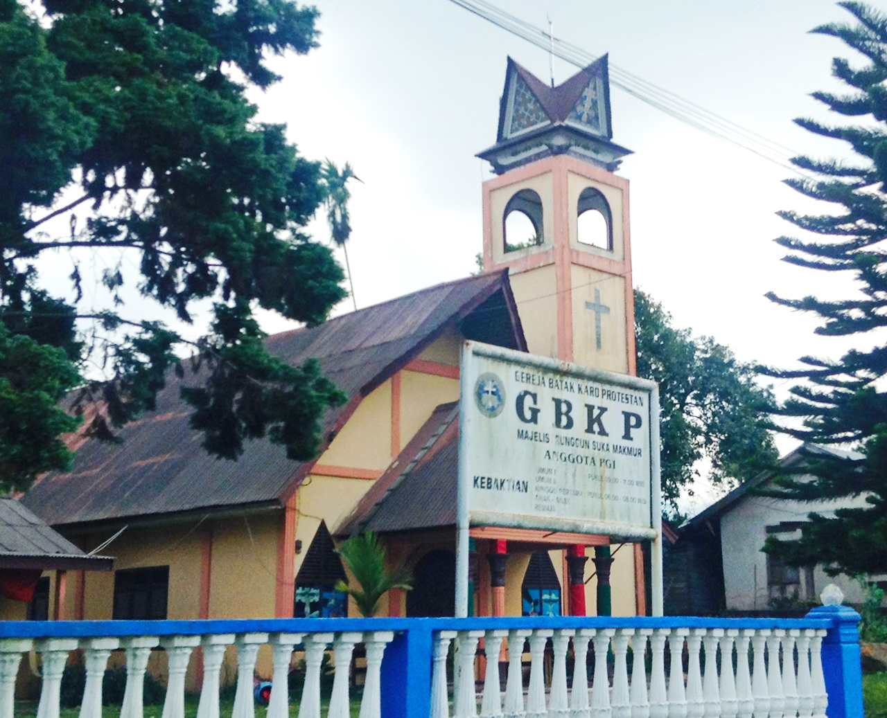 GBKP Rg. Suka Makmur, Klasis Suka Makmur, Church in Suka Makmur, Sibolangit, Deli Serdang